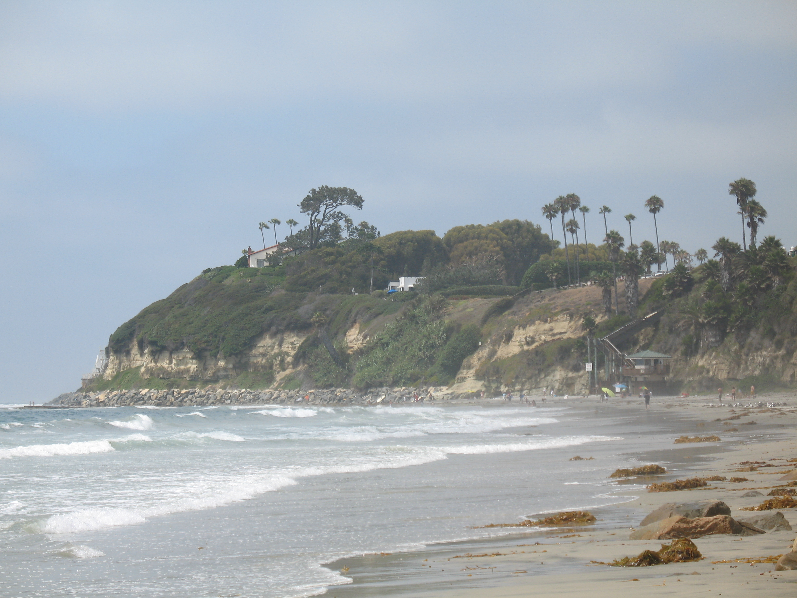 A view looking north along Swami's beach in Encinitas, showing the point with two of the Self Realization Fellowship's buildings visible, 2007. The red-roofed building on top of the point is the hermitage where Yogananda wrote "Autobiography of a Yogi".